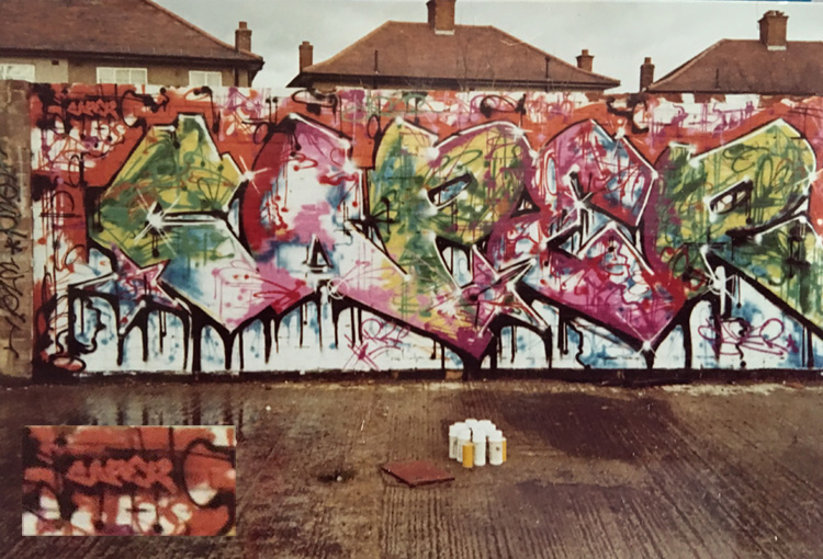 Graffiti name stencilled ‘Caper’ top left corner, along with the main piece around 1987. This piece was by Dee (aka Caper) and painted by the (R2F) ‘Ready to Fascinate’ graffiti writers group, later known as the 'Vinyl Junkie’s' ((Ren, Top1 and Scie),from Hayes and Southall, London/UK.